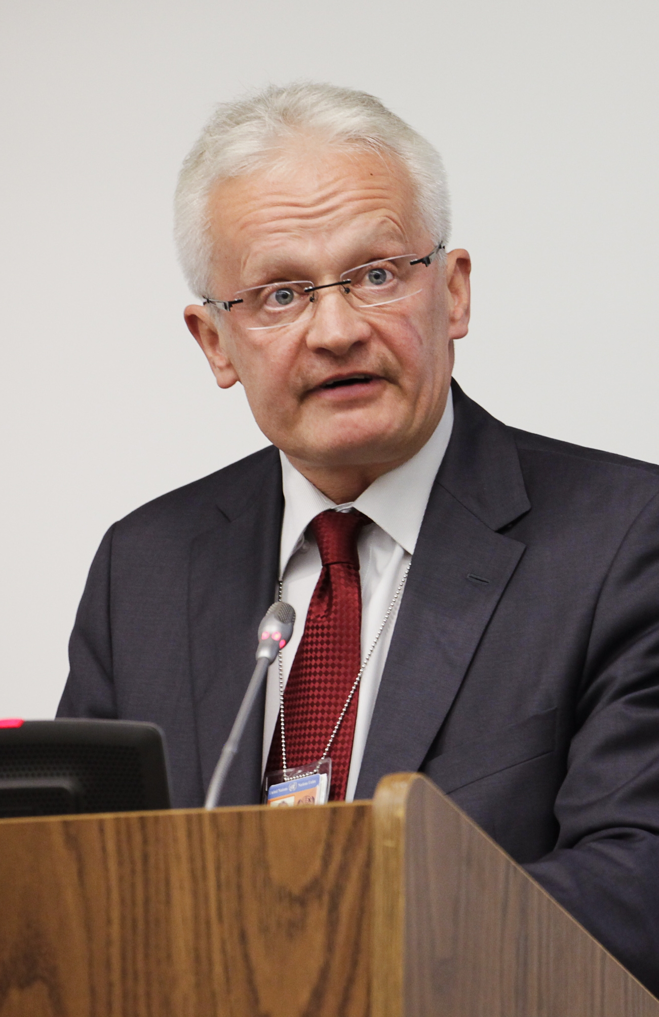 23 September, 2011 - New York Permanent Representative of Lithuania to the UN, Dalius Cekuolis, at the Conference on Facilitating the Entry into Force of the Comprehensive Nuclear-Test-Ban Treaty at the United Nations in New York. Photographer: James Leynse Copyright CTBTO Preparatory Commission